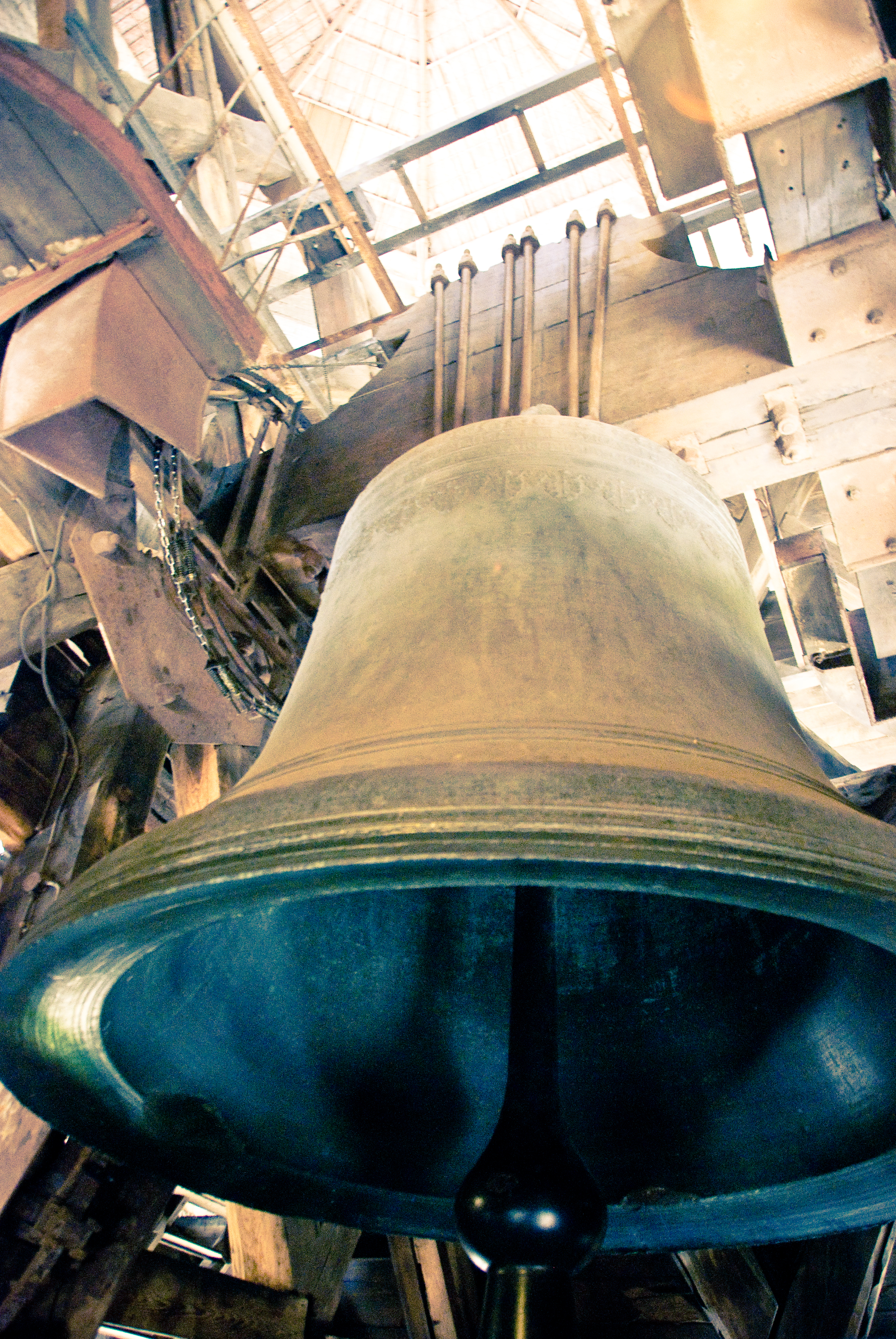 Bell of Notre Dame